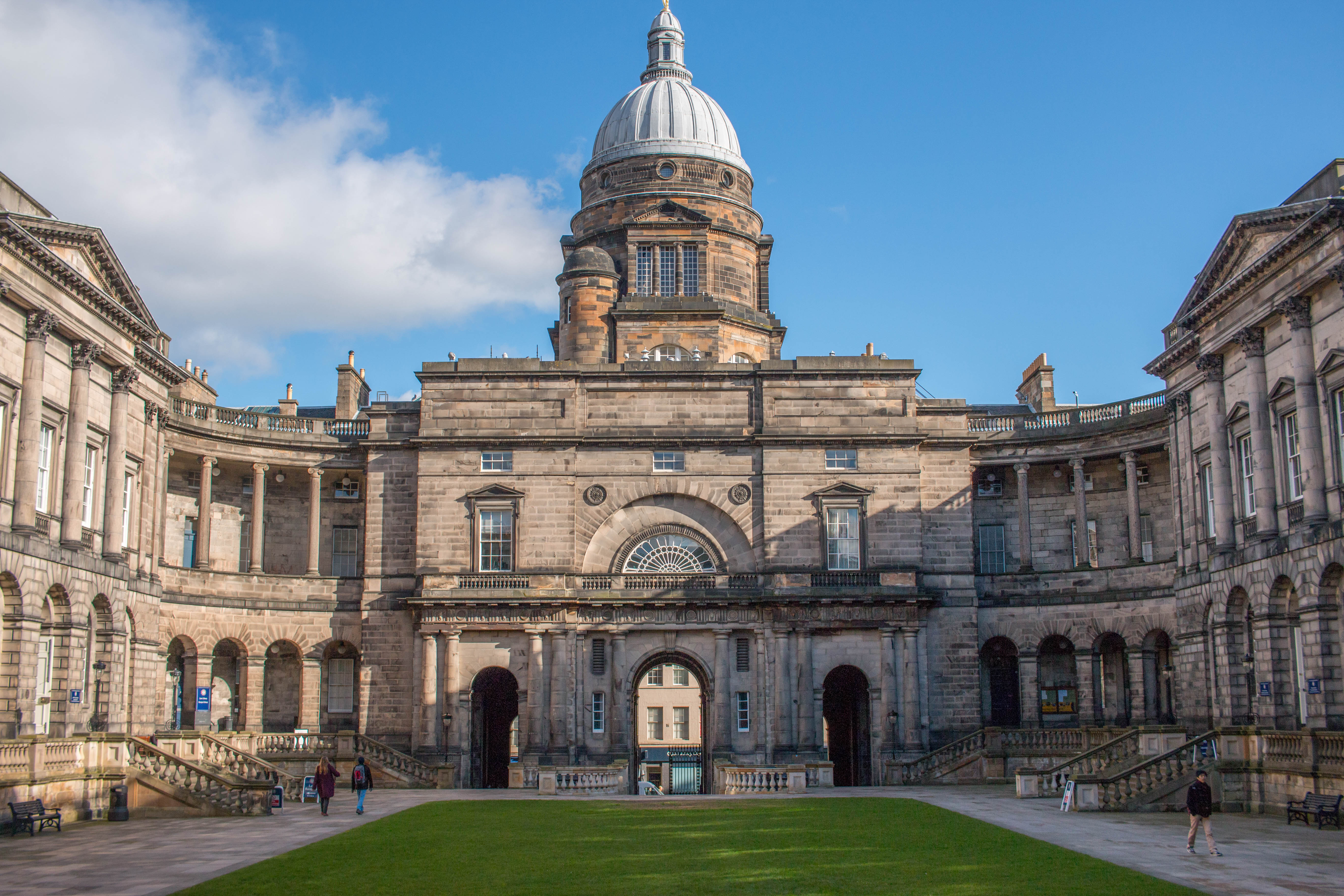 University of Edinburgh